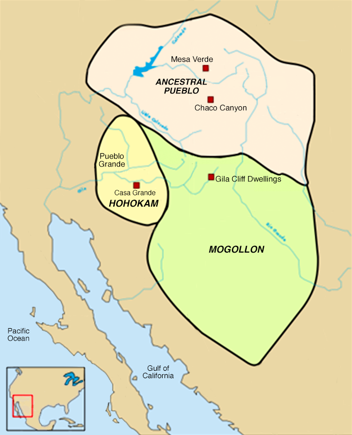 Map of Hohokam, Ancestral Pueblo, and Mogollon cultures, circa 1350 CE